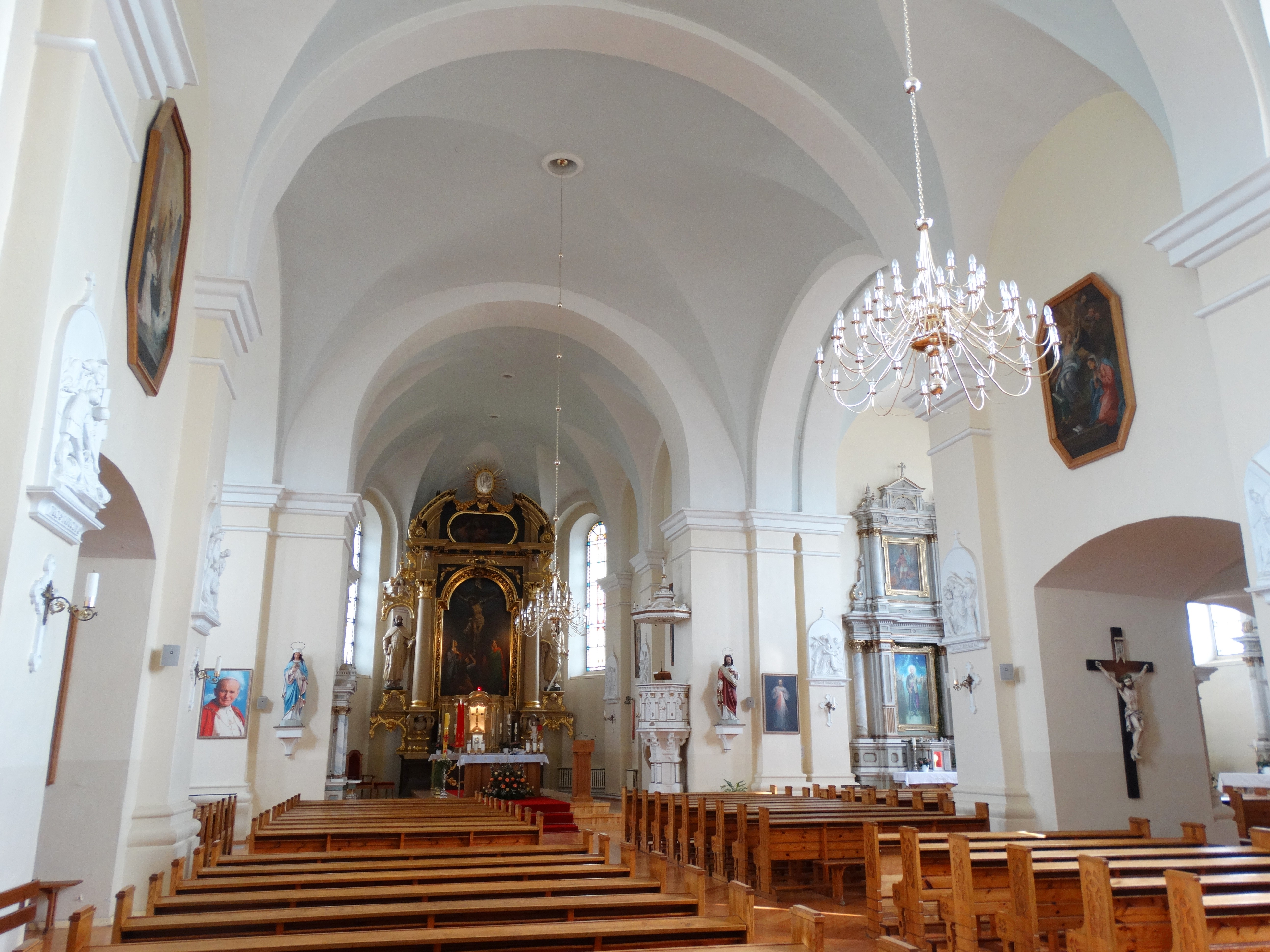 Catholic Church, Šeduva, Lithuania